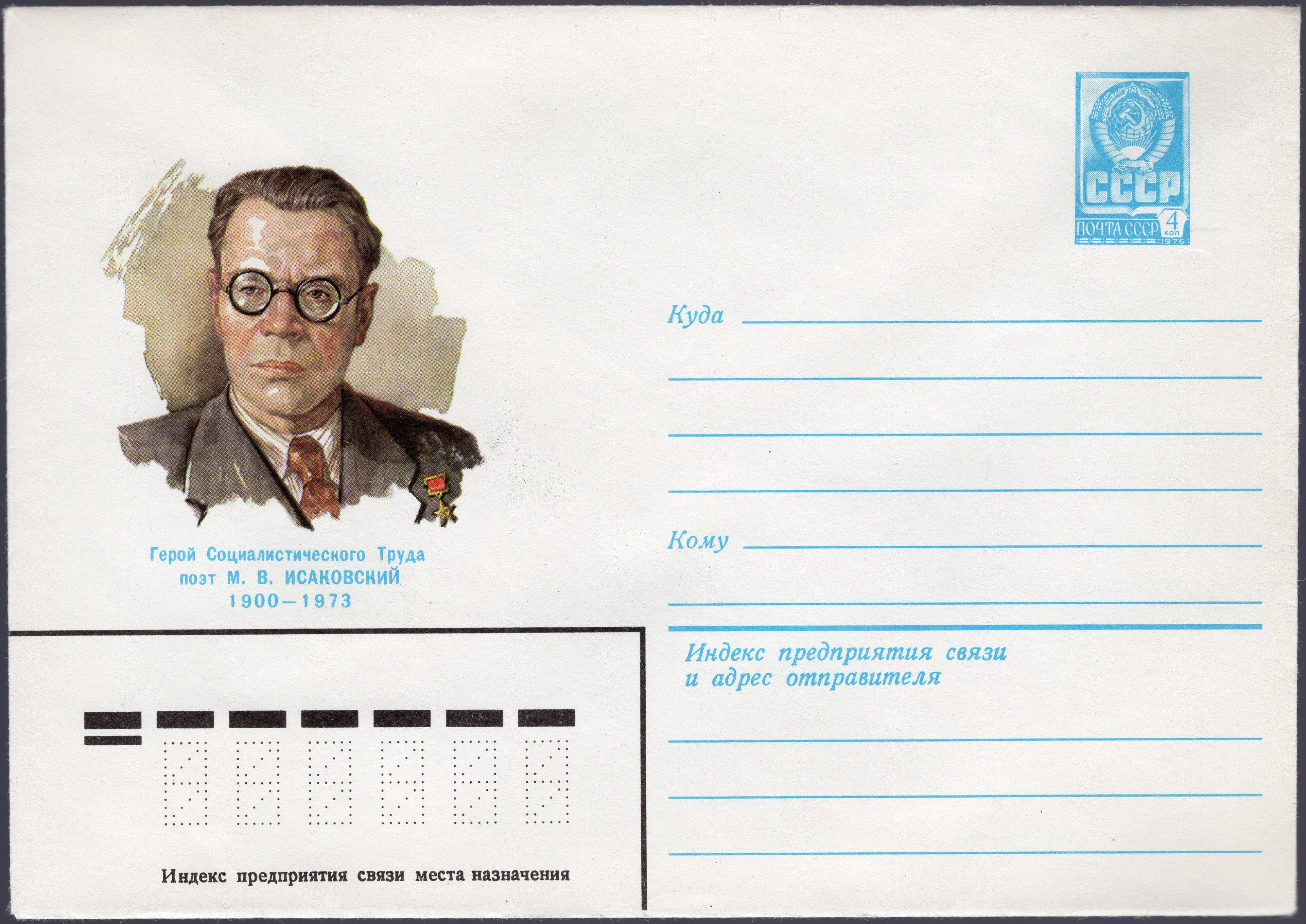 Hero of Socialist Labour poet Mikhail Isakovsky. 1900-1973. Series: Hero of Socialist Labour. Artist Peter Bendel.